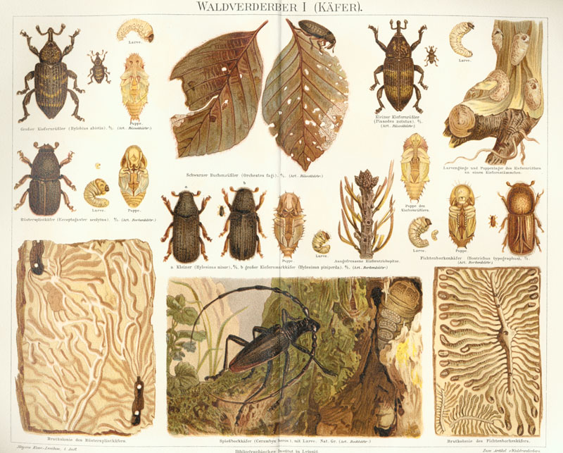 Forest pest I (bugs)